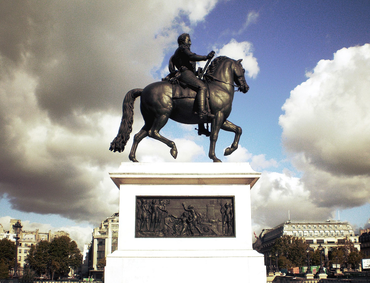 Statue of Henri IV in Paris